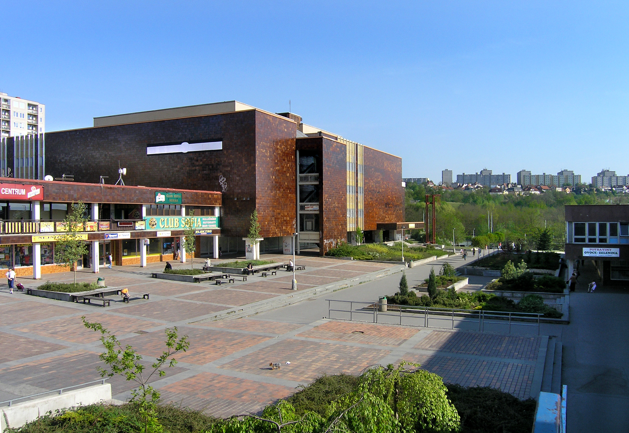 Sofia square at Modřany, Prague